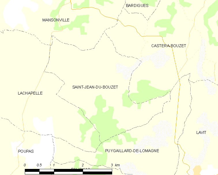 Map of French municipality Saint-Jean-du-Bouzet